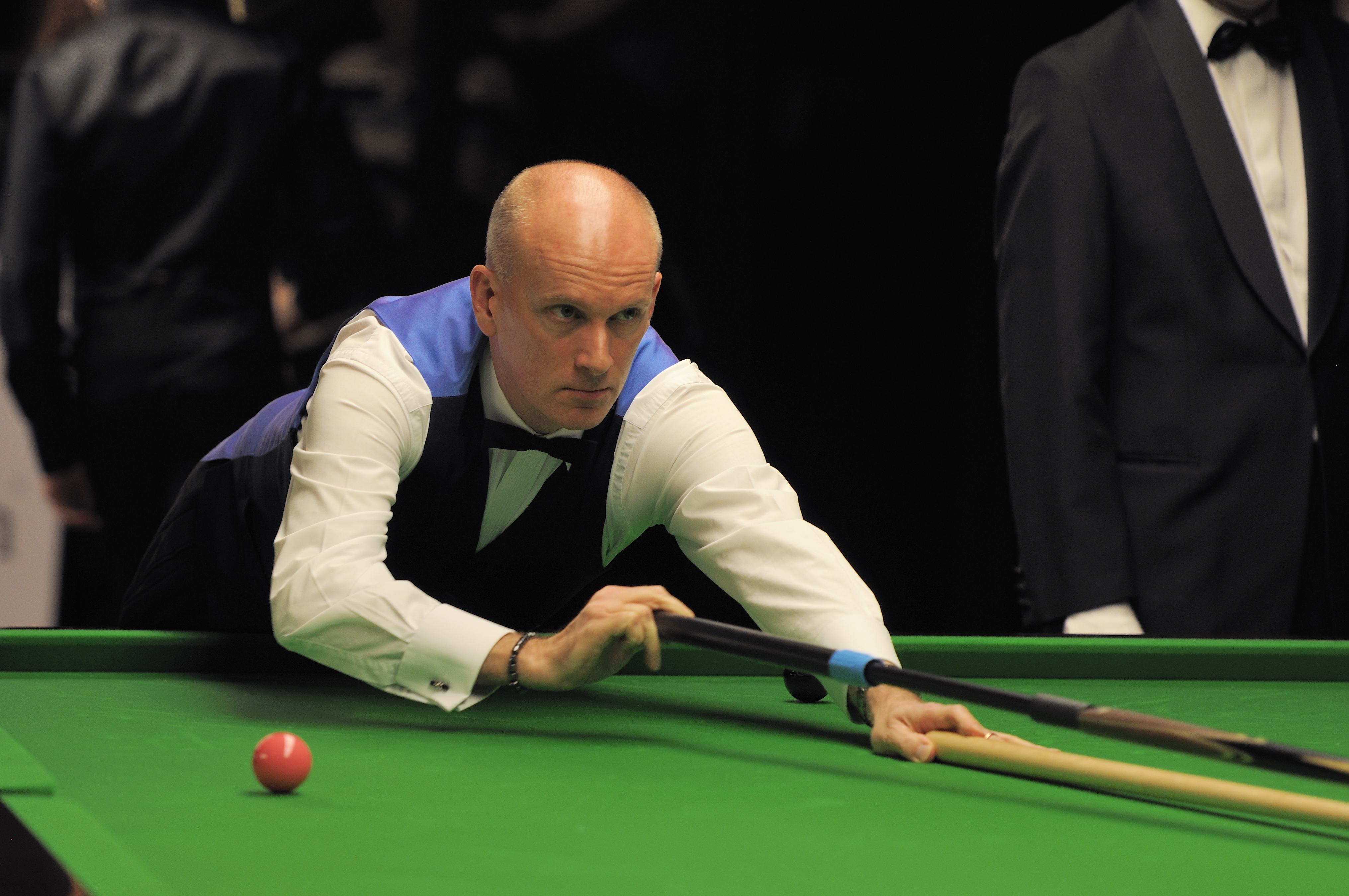 Picture taken in Berlin during the Snooker German Masters in 2014. Peter Ebdon.